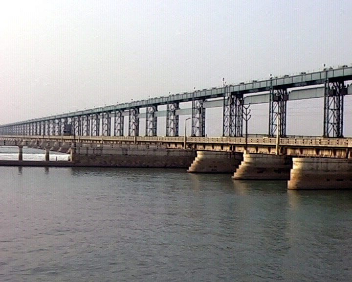 Barrage